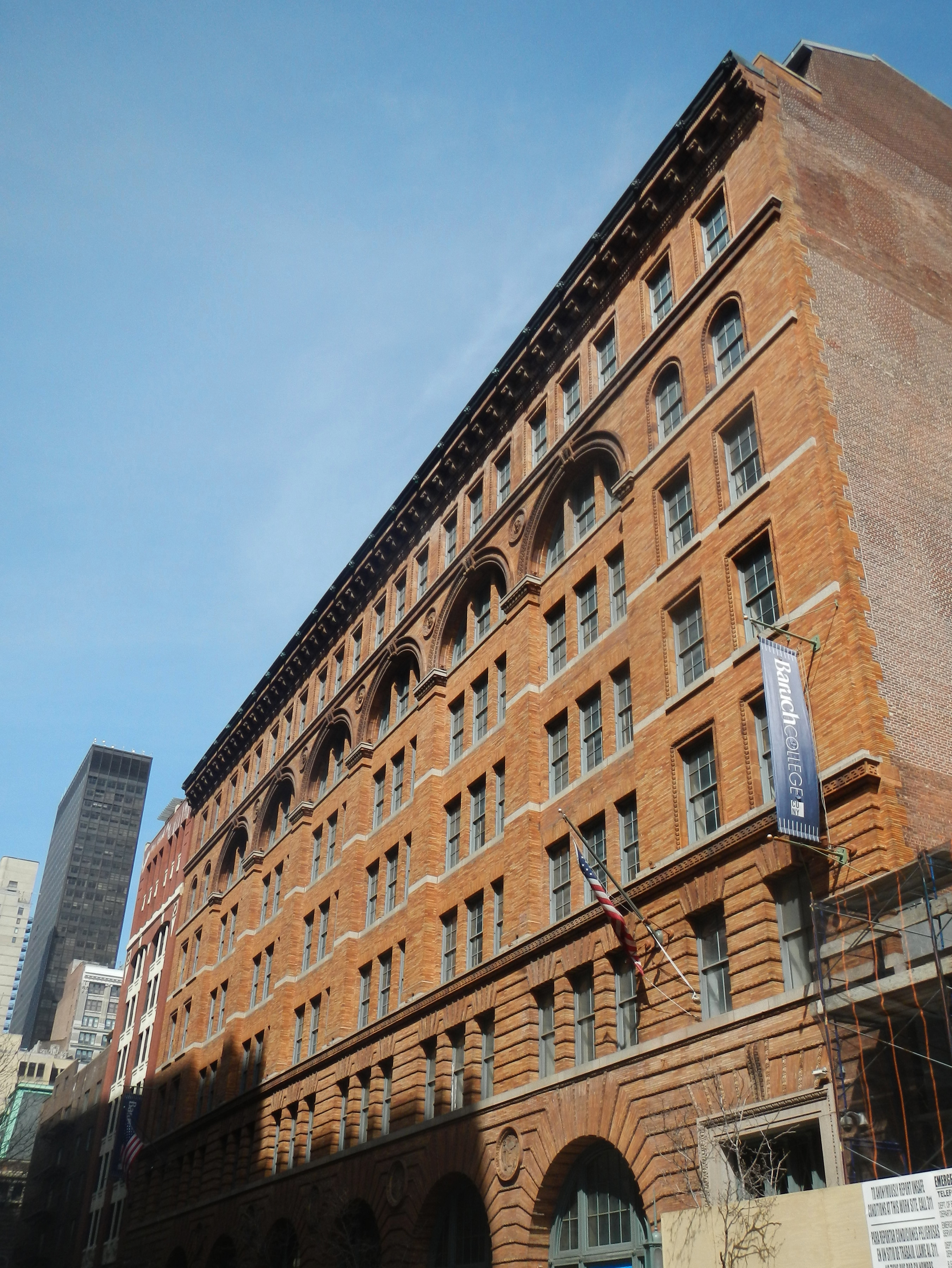 Looking north across 25th St at Baruch on a sunny day.